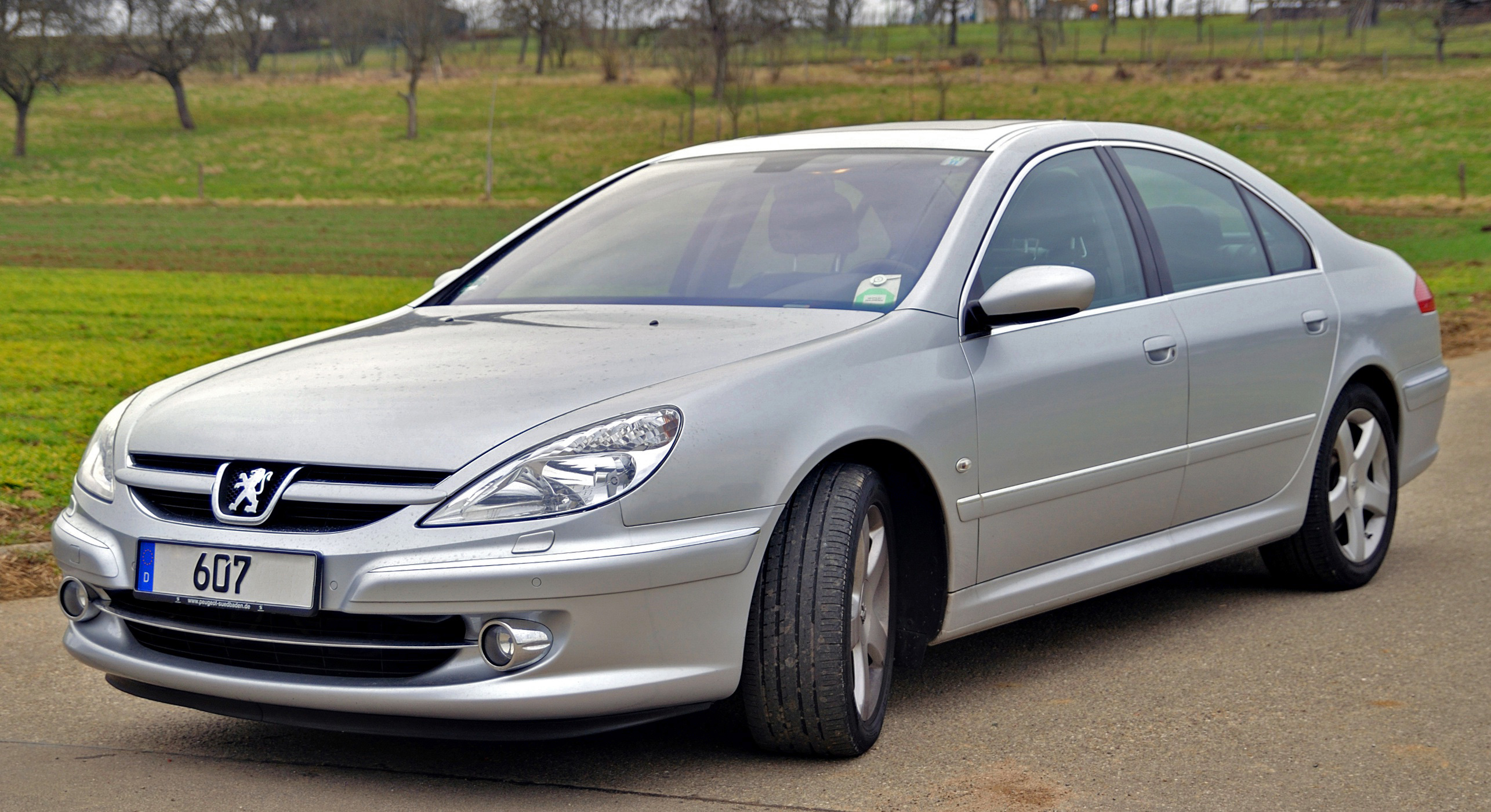 A Peugeot 607 car with a 2.7l HDI motor.